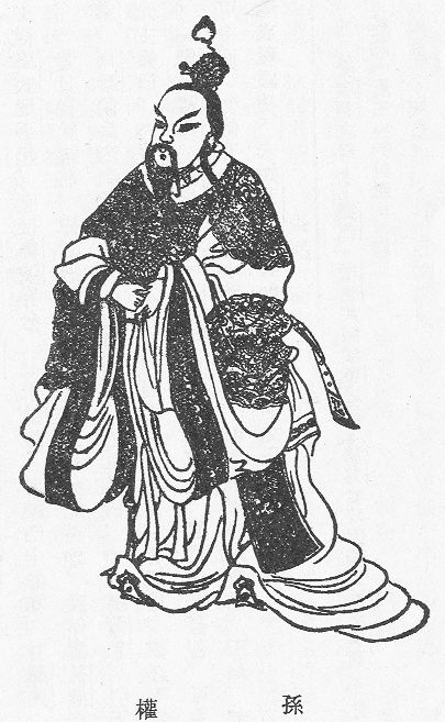 Portrait of the statesman Sun Quan from a Qing Dynasty edition of The Romance of the Three Kingdoms.